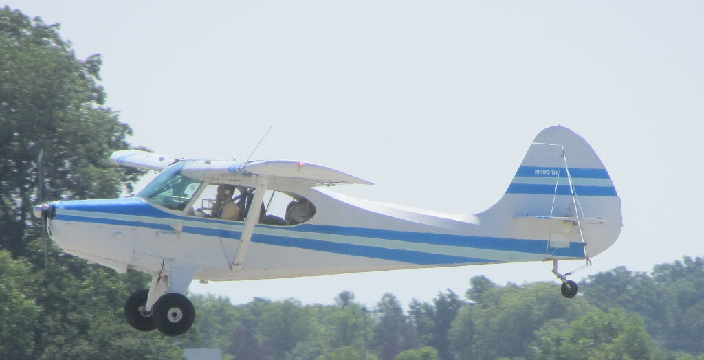 Aeronca 15C Sedan landing